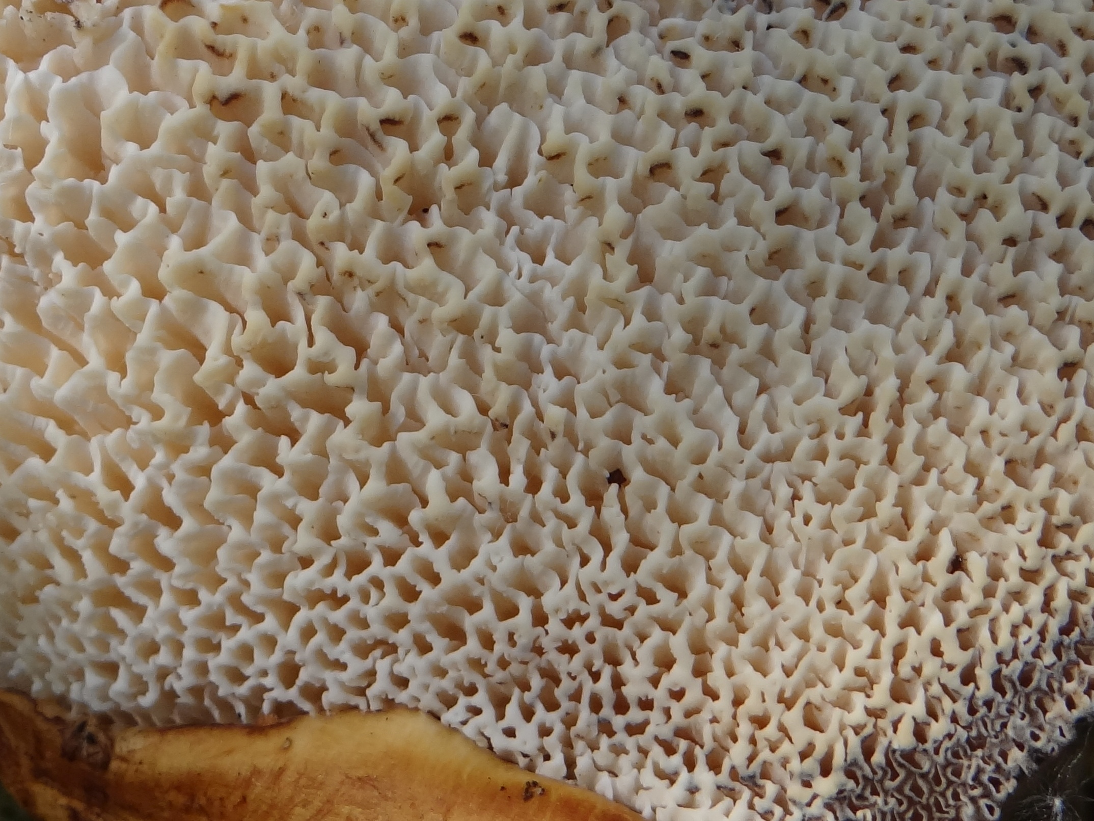 Polyporus squamosus - hymenofor (location: Poland, Pieniny, Dolina Białej Wody)